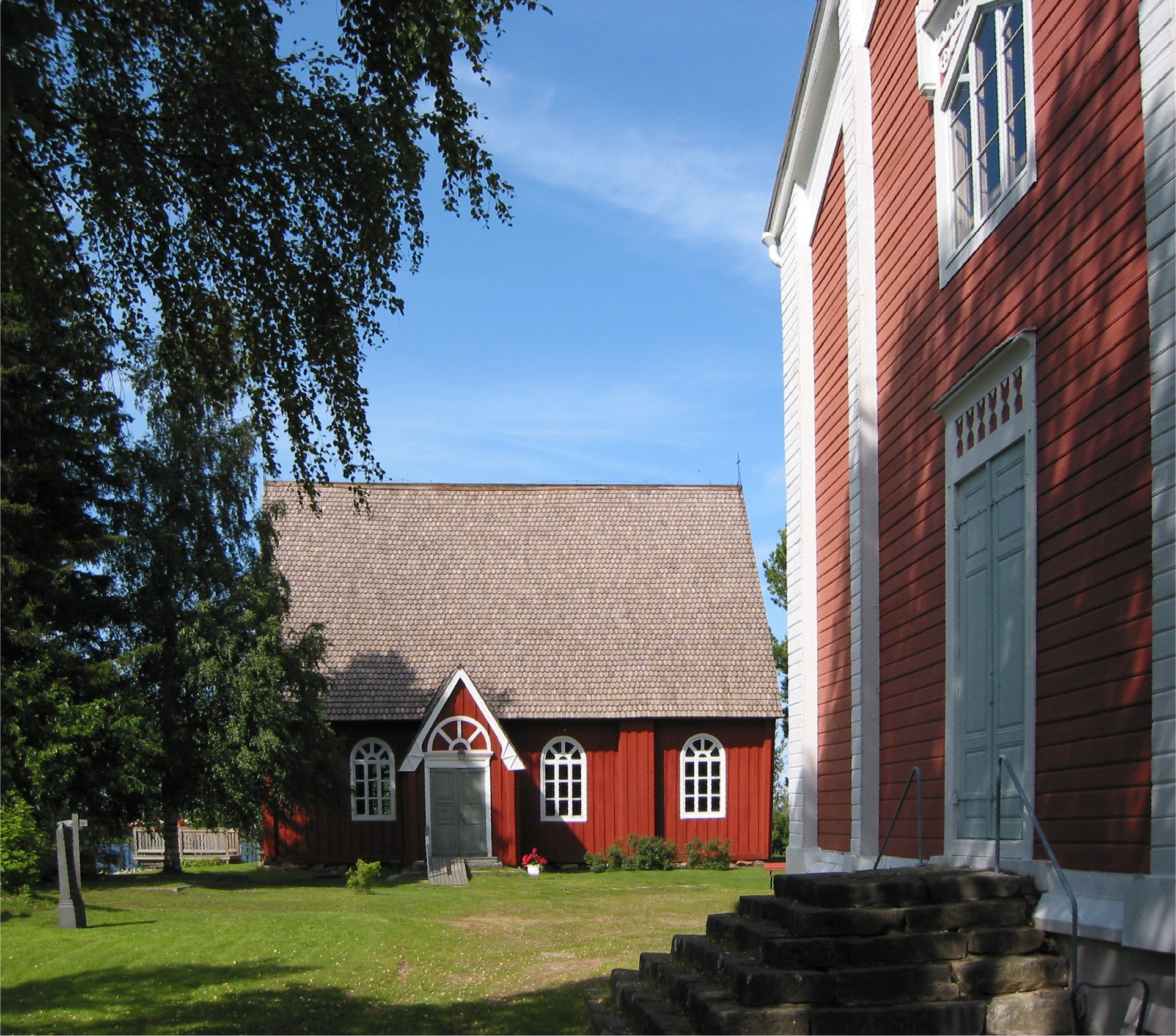 The older church in Tervola, Finland. Built in 1687–1689.